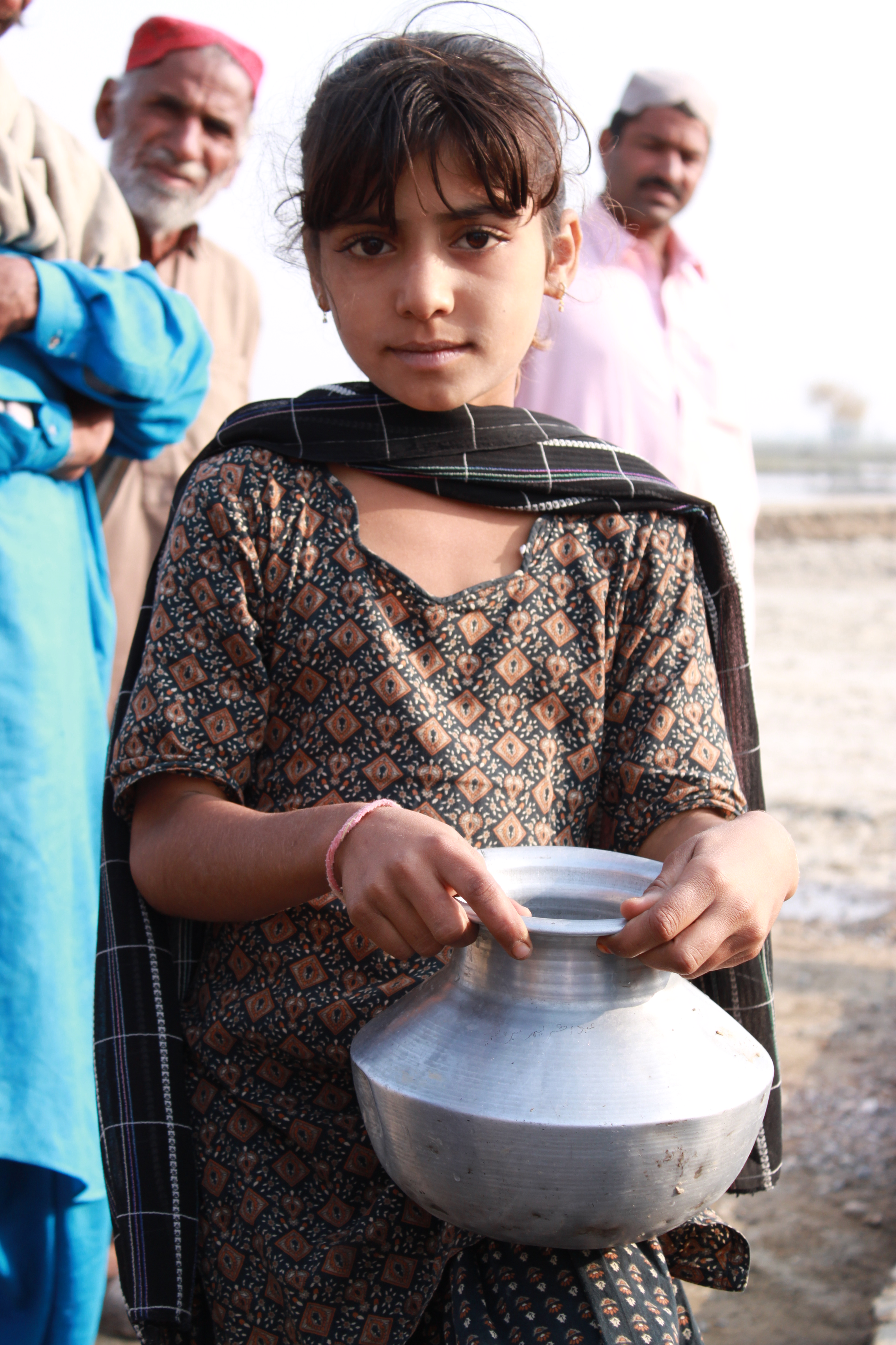 A young girl queues to collect clean drinking water in a remote village in Pakistan's Sindh province. UKaid from the British government is helping millions of people affected by last year's flooding to begin to rebuild their lives. Funding from the Department for International Development is providing clean drinking water, shelter, basic healthcare and support for livelihoods. To find out more about how the UK is helping in Pakistan, please visit Image: DFID/Vicki Francis Terms of use This image is posted under a Creative Commons - Attribution Licence, in accordance with the Open Government Licence. You are free to embed, download or otherwise re-use it, as long as you credit the source as 'Department for International Development.